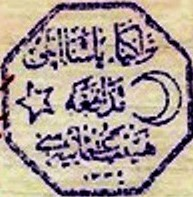 Seal of Thrace Paşaeli Association for the Defense of Rights